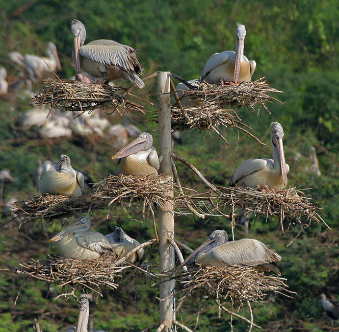 Spot-billed PelicanPelecanus philippensis in Uppalapadu, Andhra Pradesh, India.